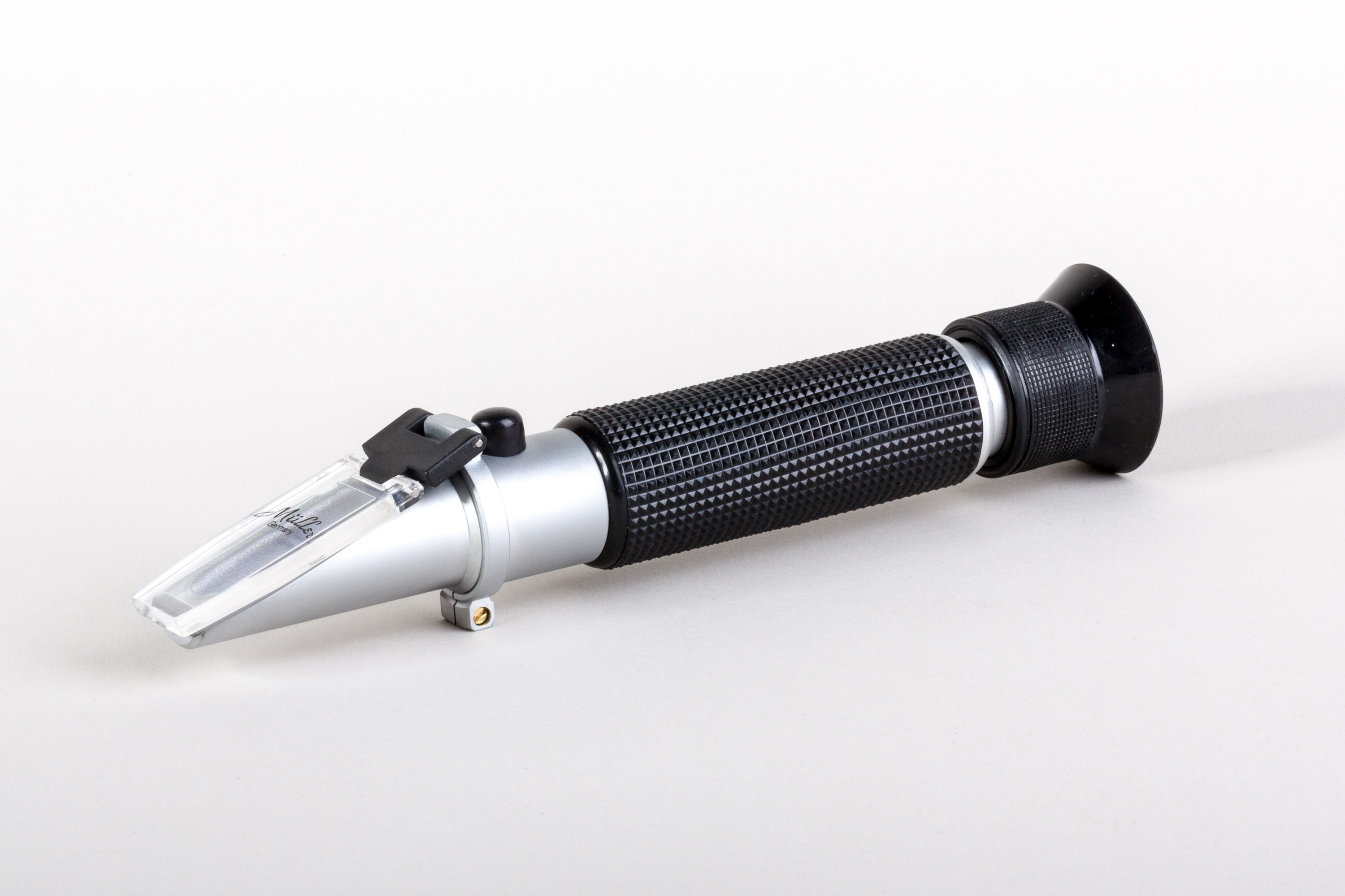 Portable Refractometer